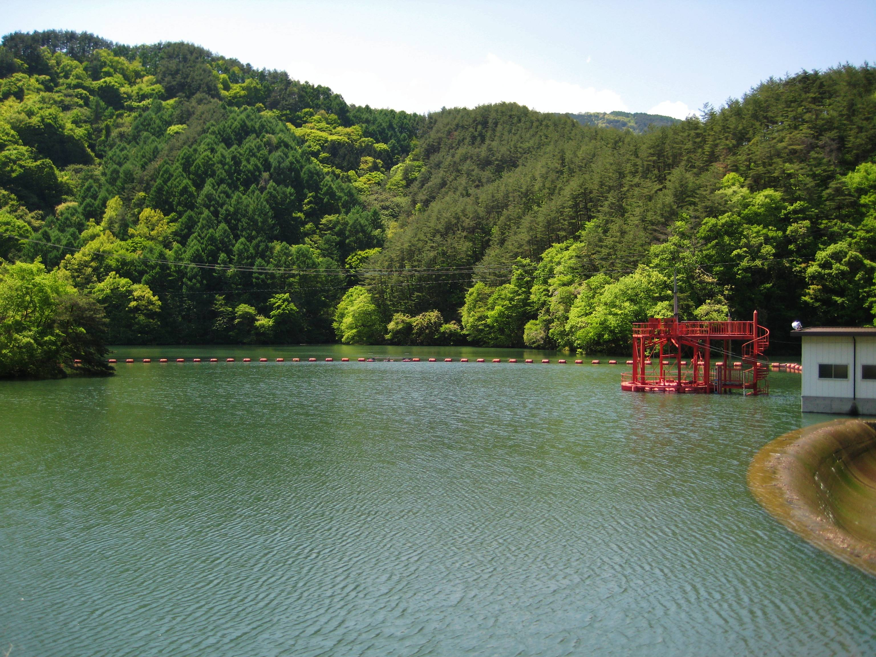 Lake Sayamaike (Ueda, Nagano).